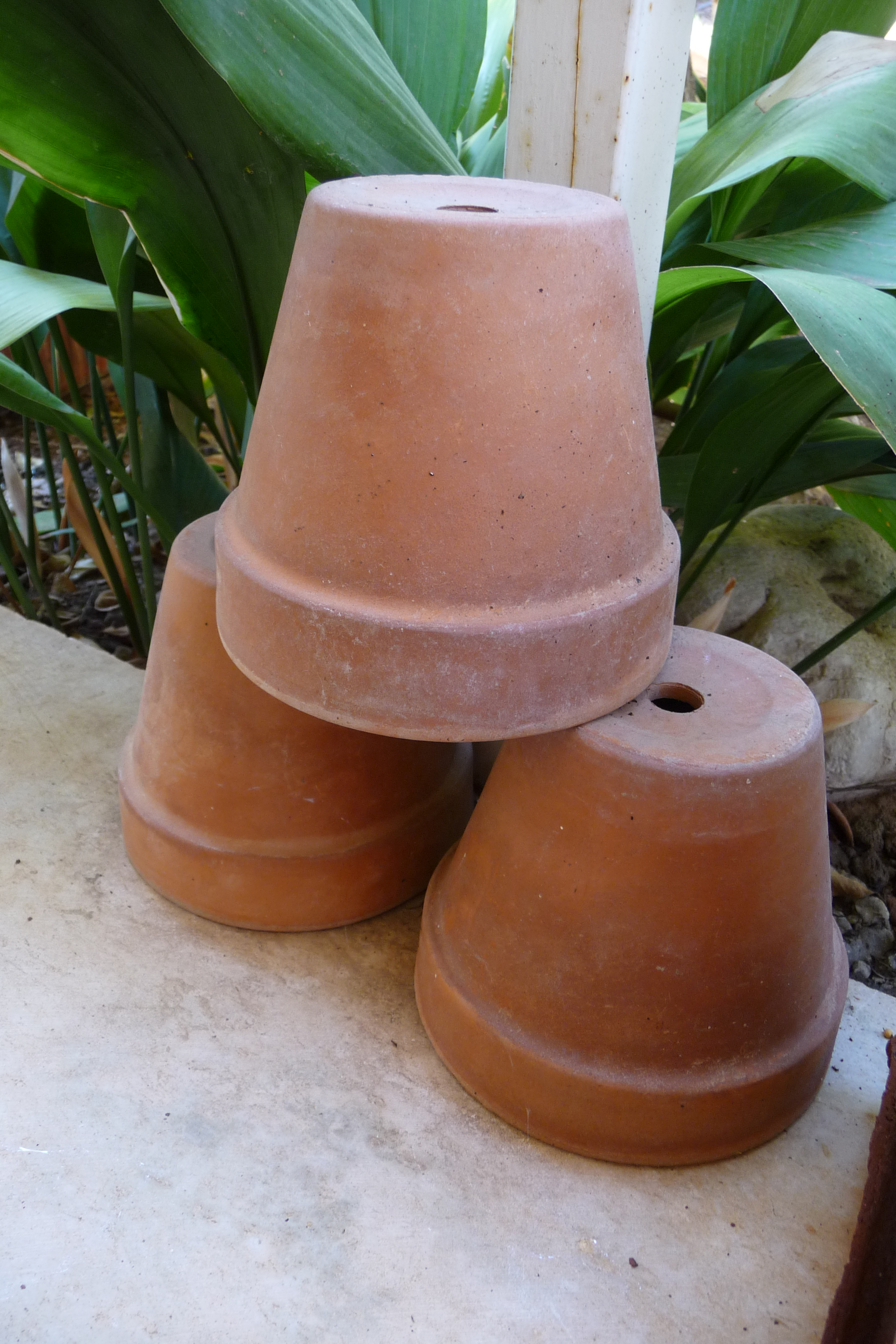 Stack of three Clay garden pots upside down in the garden.